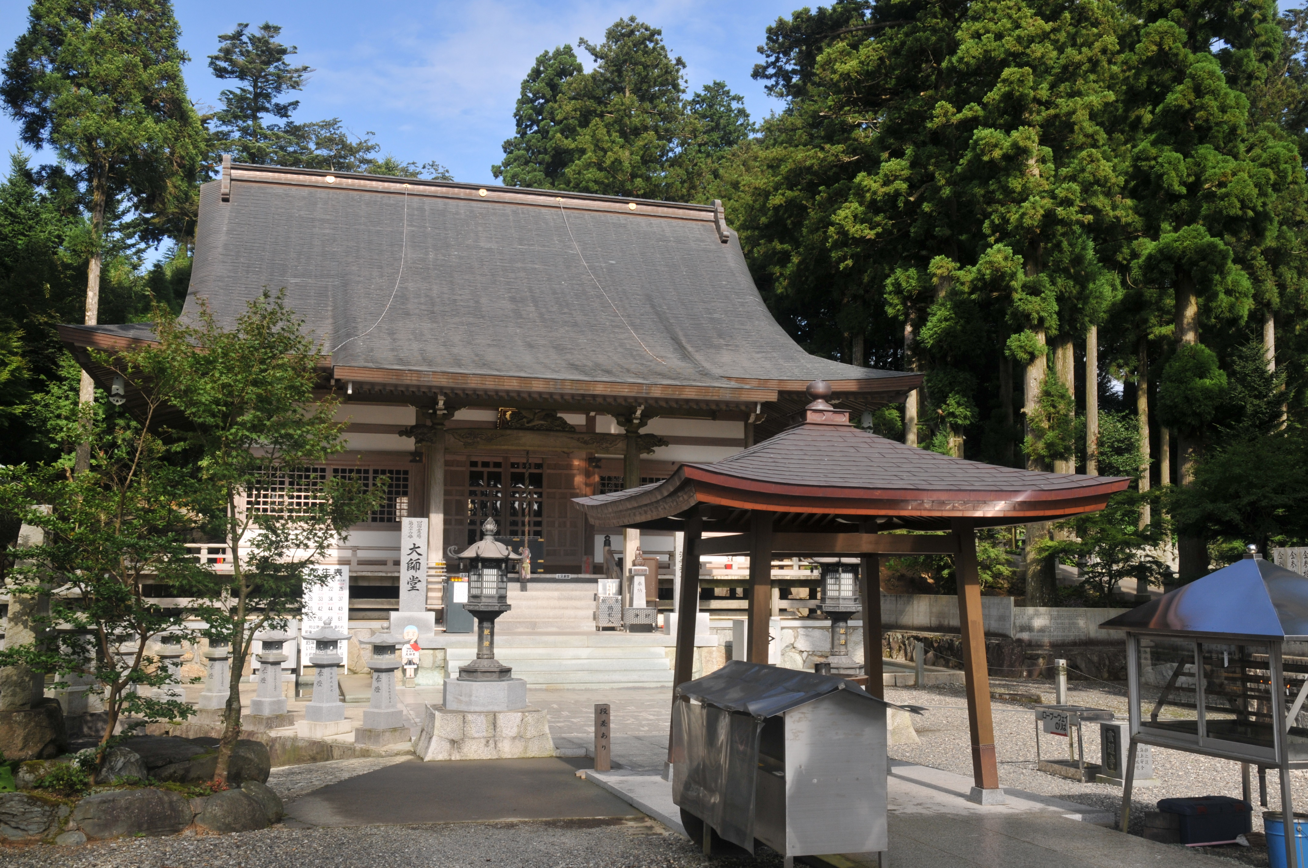 Daishi-dō, Unpen-ji